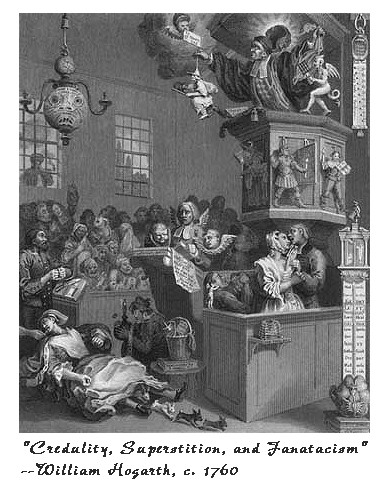 William Hogarth: Engraving of the well-publicized and widely contested story of Mary Tofts (of Godalming in Surrey) who supposedly gave birth to a family of rabbits in October 1726. Tofts later went to prison for what proved to be a hoax. (according to source)